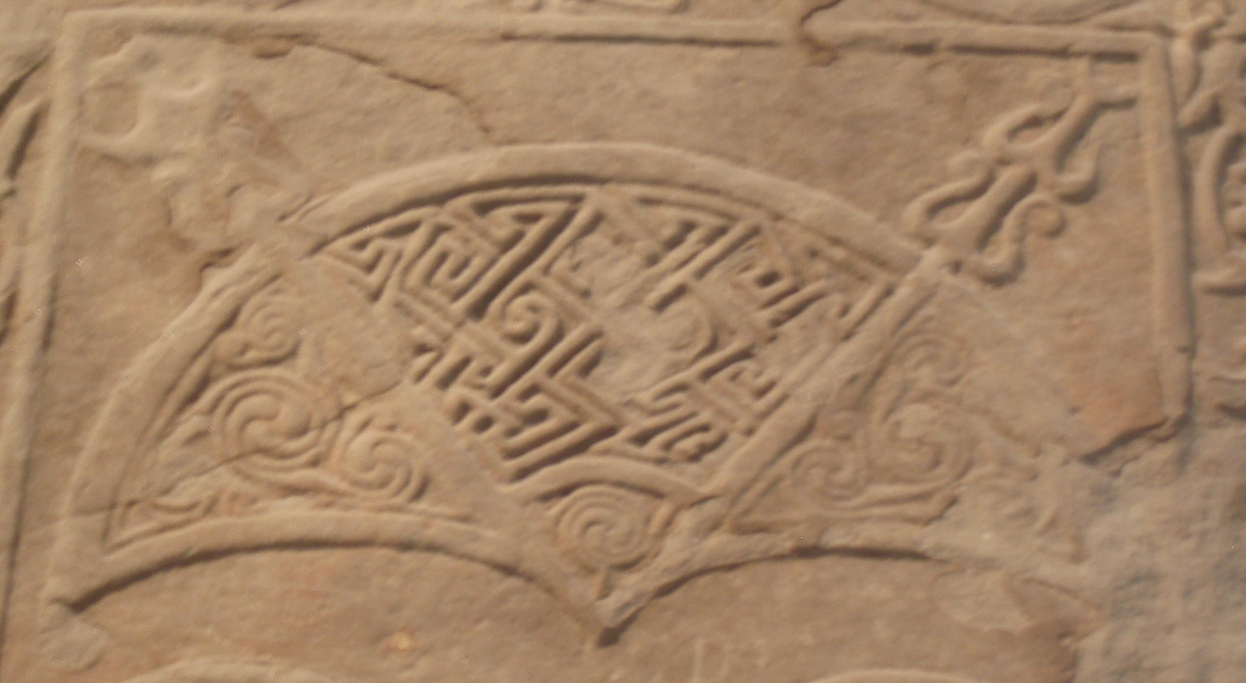 Pictish crescent and V-rod symbol. From Hilton of Cadboll stone